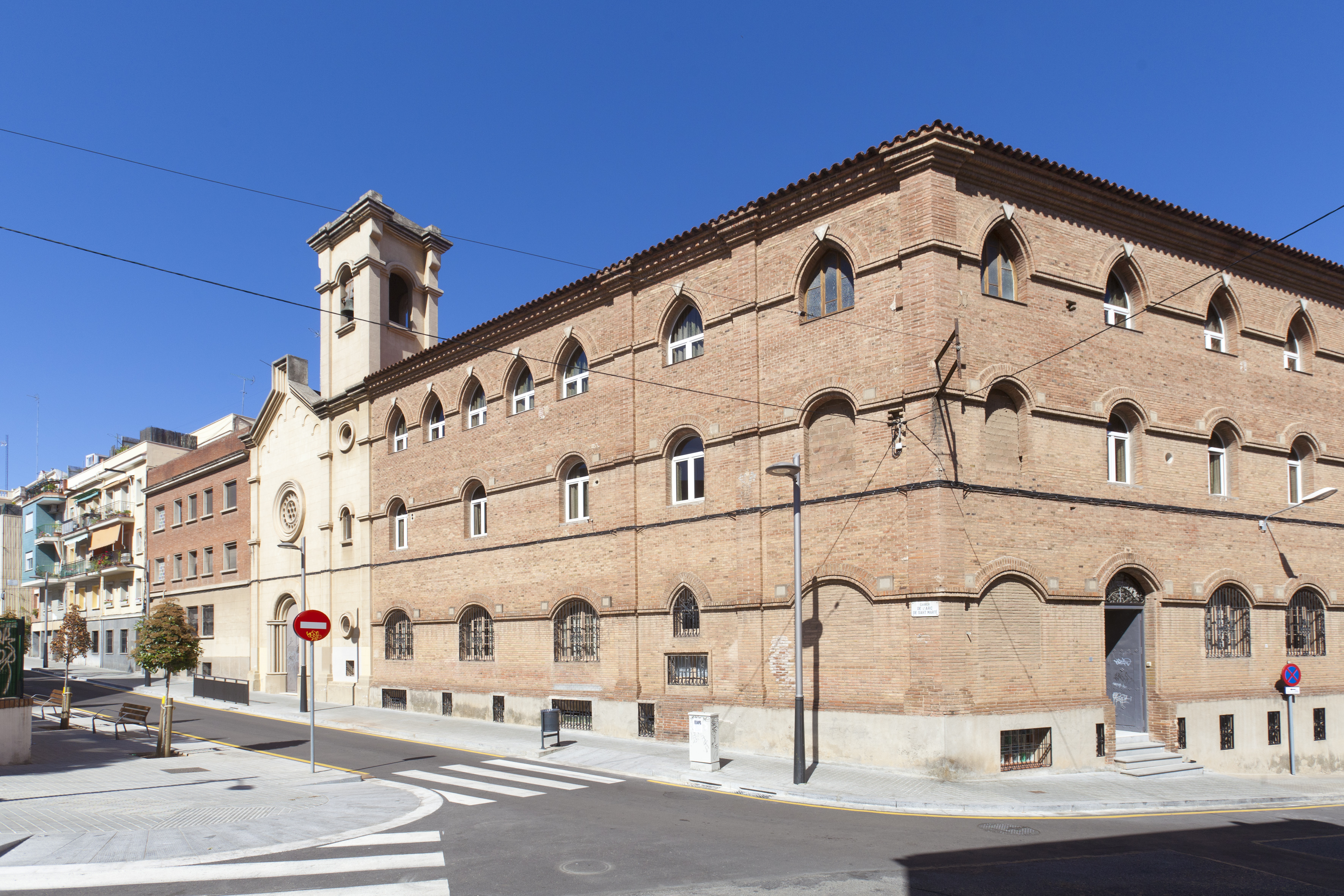 Historical Routes at the Horta-Guinardó District Administration in Barcelona This image was provided to Wikimedia Commons by the Horta-Guinardó District Administration in Barcelona as part of an ongoing cooperative project with Amical Viquipèdia. English | +/−